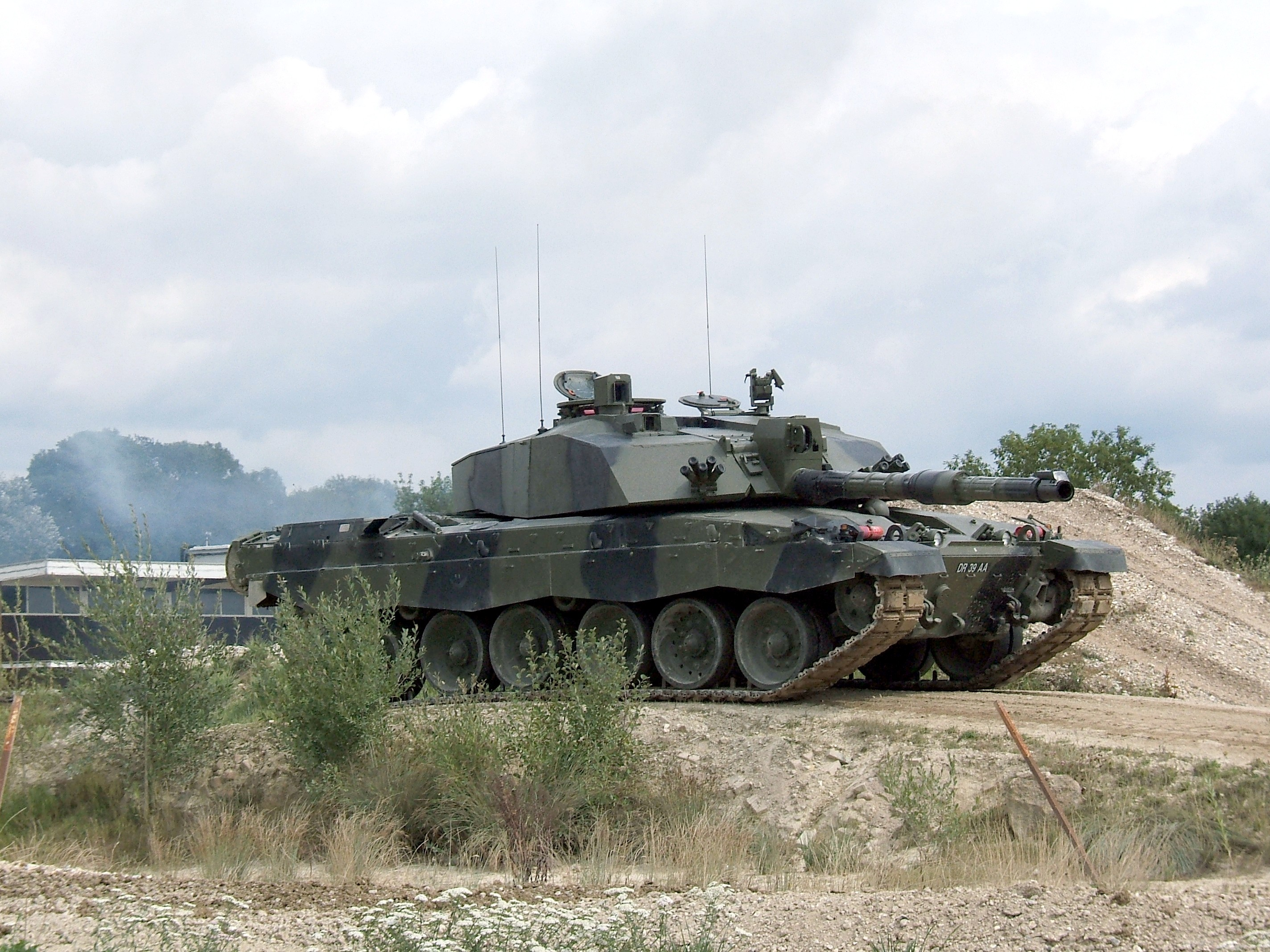 The Household Cavalry/RAC had a recruitment stand at the tank museum, with a couple of Scorpion-based vehicles on display. They also brought along a Challenger II tank which did a few turns of the arena.